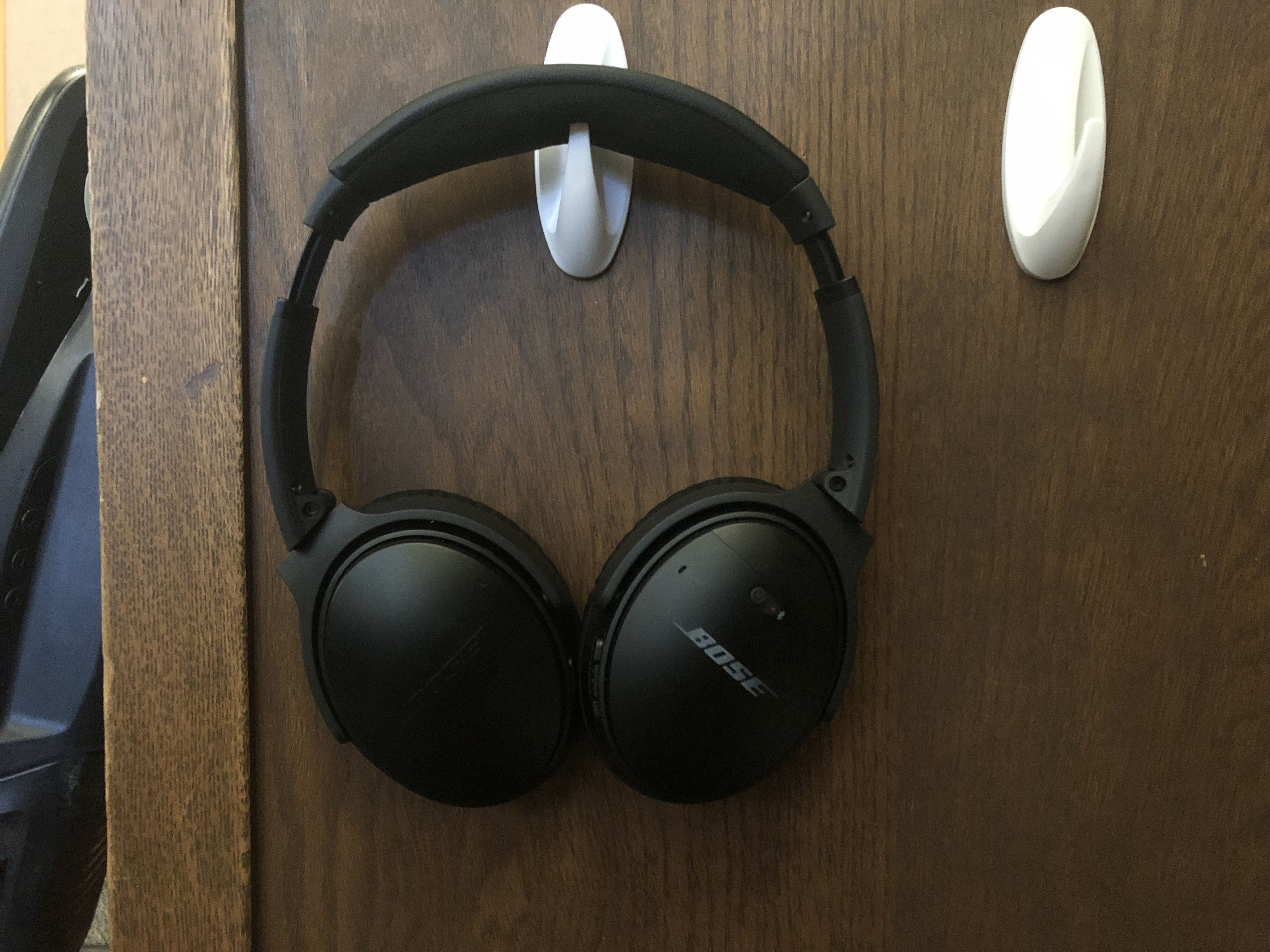 The Bose QuietComfort 35 II are wireless, noise cancelling headphones with Google Assistant and Amazon Alexa built in. They have 20 hours of battery and function as a platform for Bose AR.